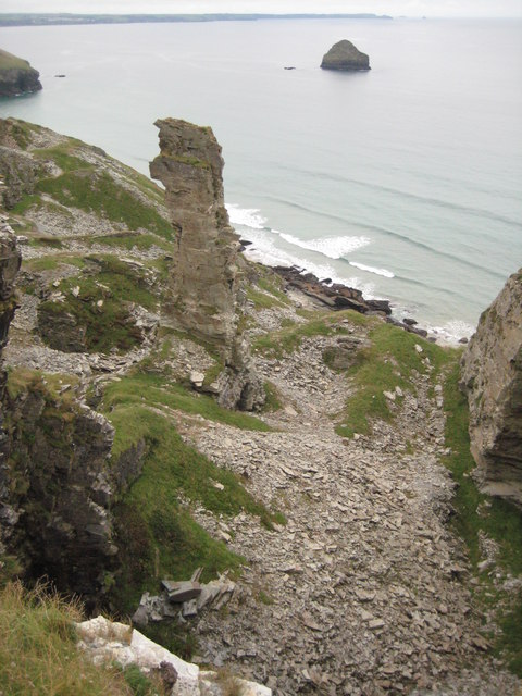 Lanterdan Quarry The remains of the Lanterdan slate quarry to the south of Tintagel, the pinnacle stands like a sea stack but is in fact left over from the quarrying activities.